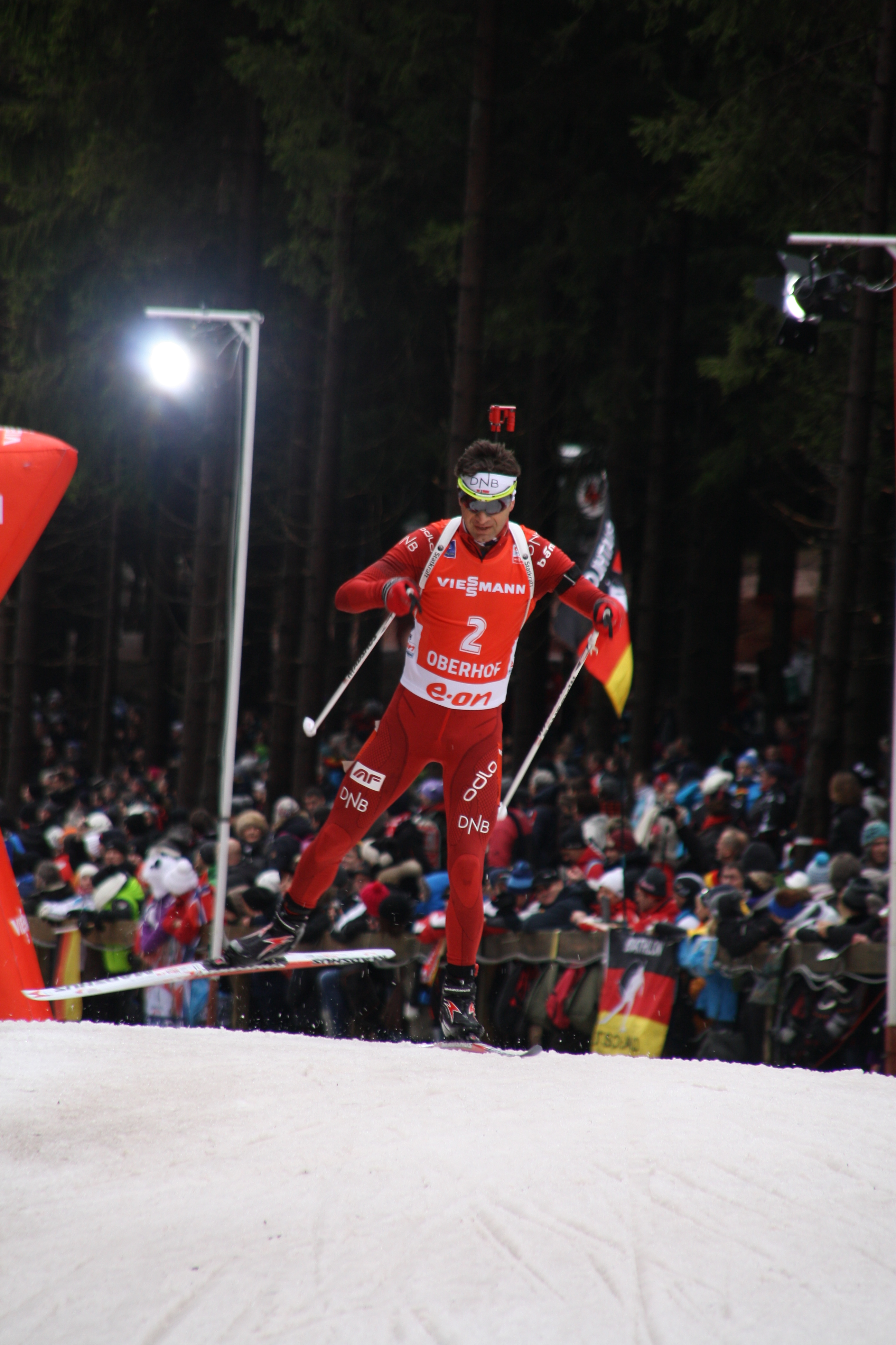 Biathlon World Cup Oberhof 2014 - Mens Pursuit